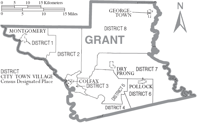 Map of Grant Parish, Louisiana, United States with municipal and district boundaries